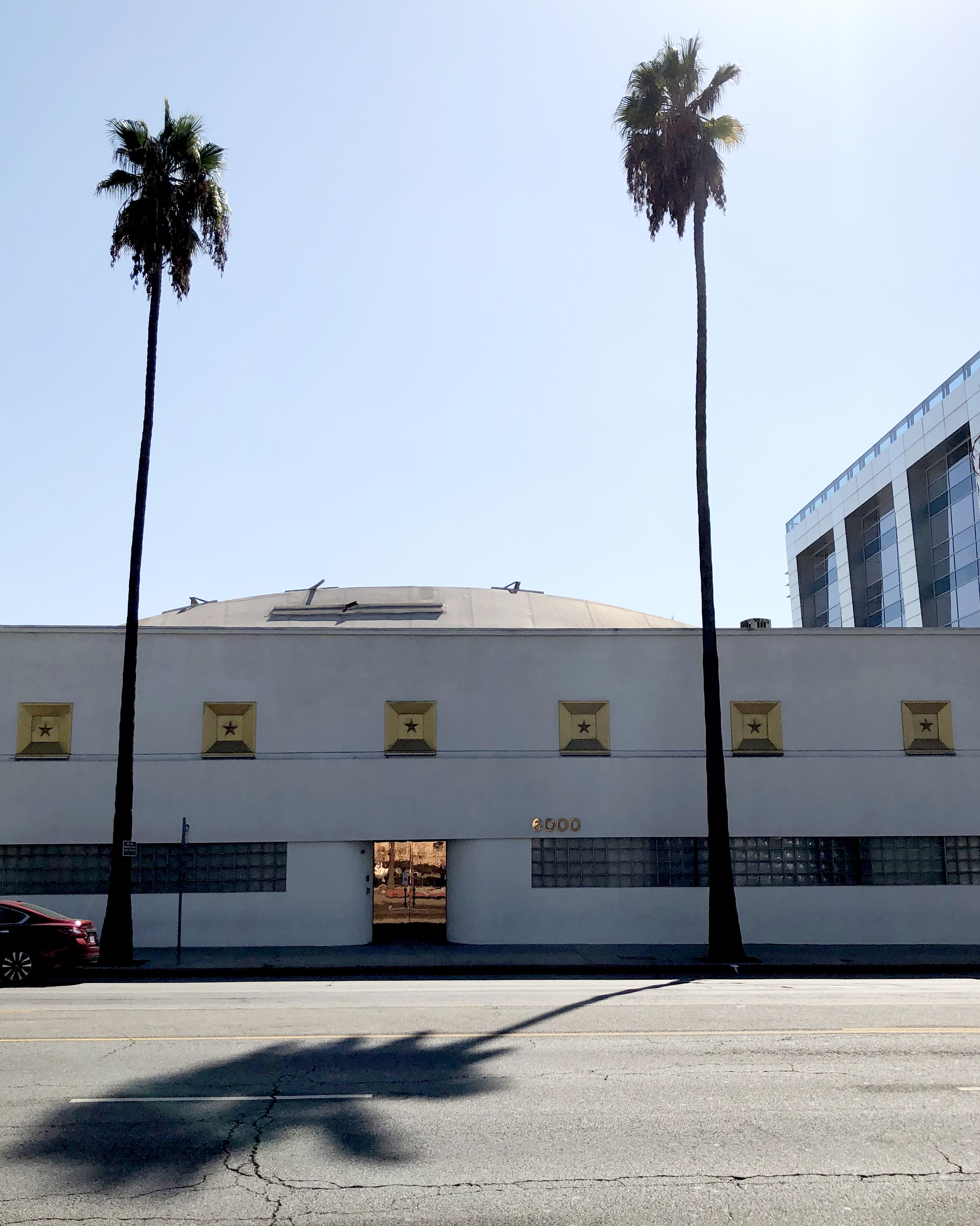 Exterior of EastWest Studios at 6000 Sunset Boulevard in Los Angeles, California. The building was formerly known as Western Studio, as part of United Western Recorders.